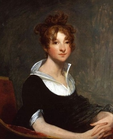 Marcia Van Ness, wife of New York Congressman and Washington, DC Mayor John P. Van Ness